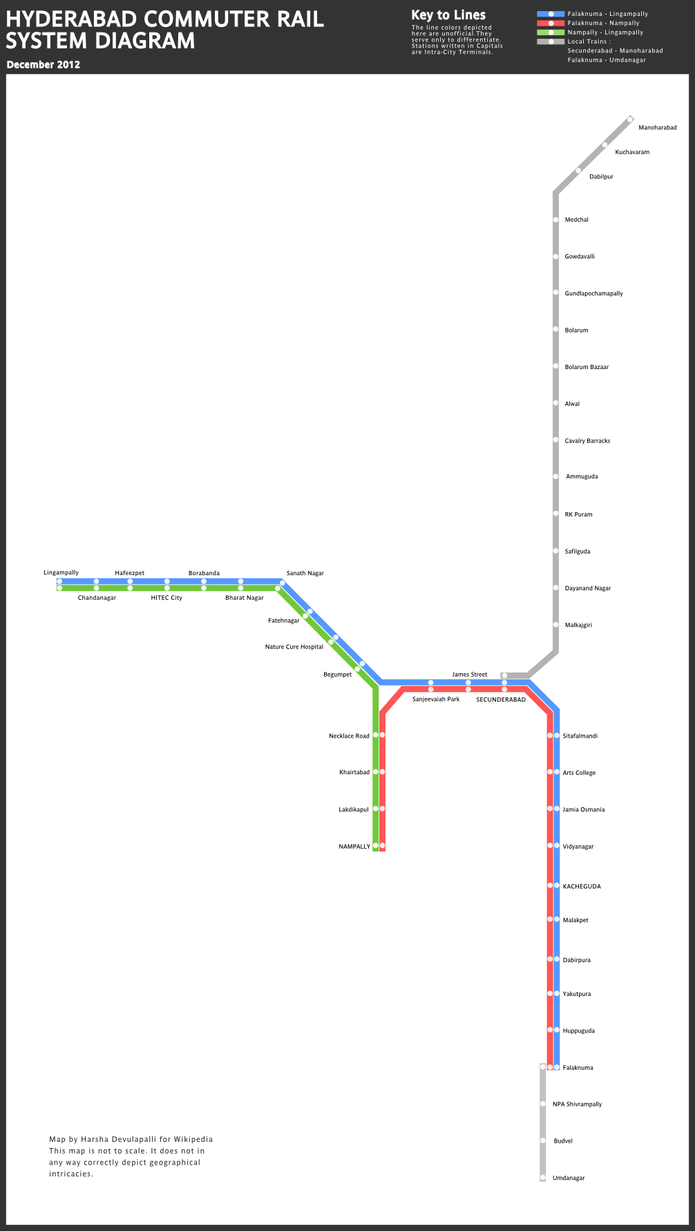 A map of the MMTS Network in Hyderabad along with Local Train Routes.